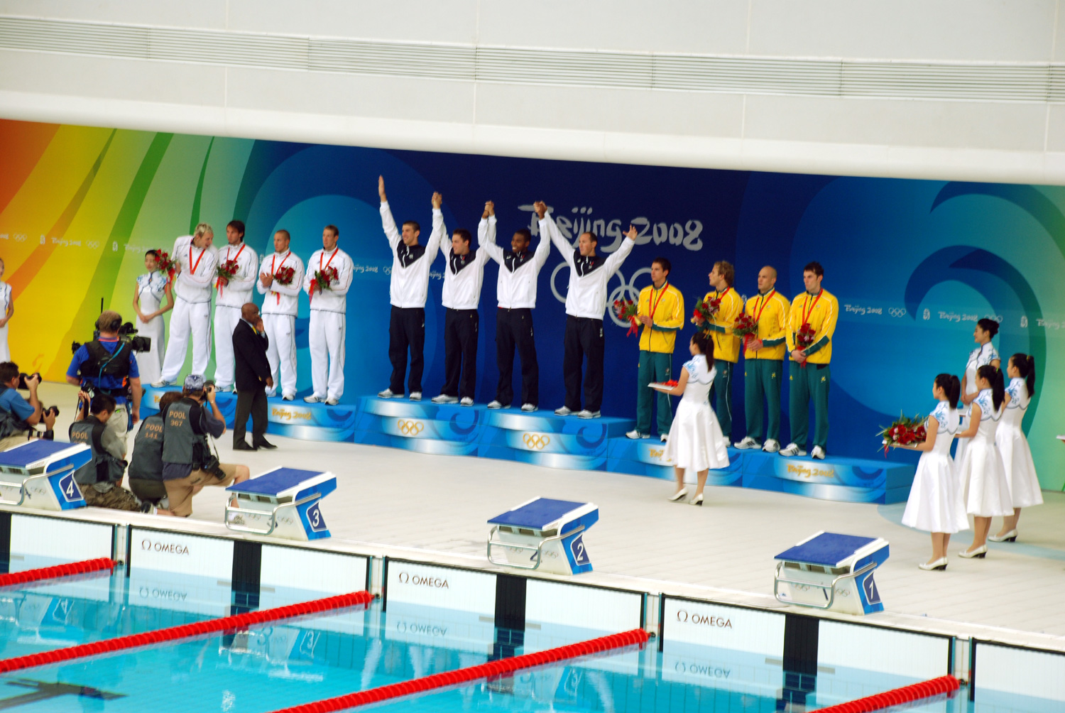 Michael Phelps, Garett Weber-Gale, Cullen Jones and Jason Lezak on the podium of the 4x100m relay, august 11th 2008 at the Watercube, Beijing